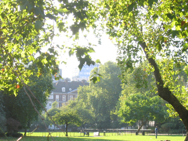 Lincoln's Inn Fields One of several large squares in the City with public open space in the centre. Although traffic around it is not restricted it is surprisingly quiet, at least on a weekend.